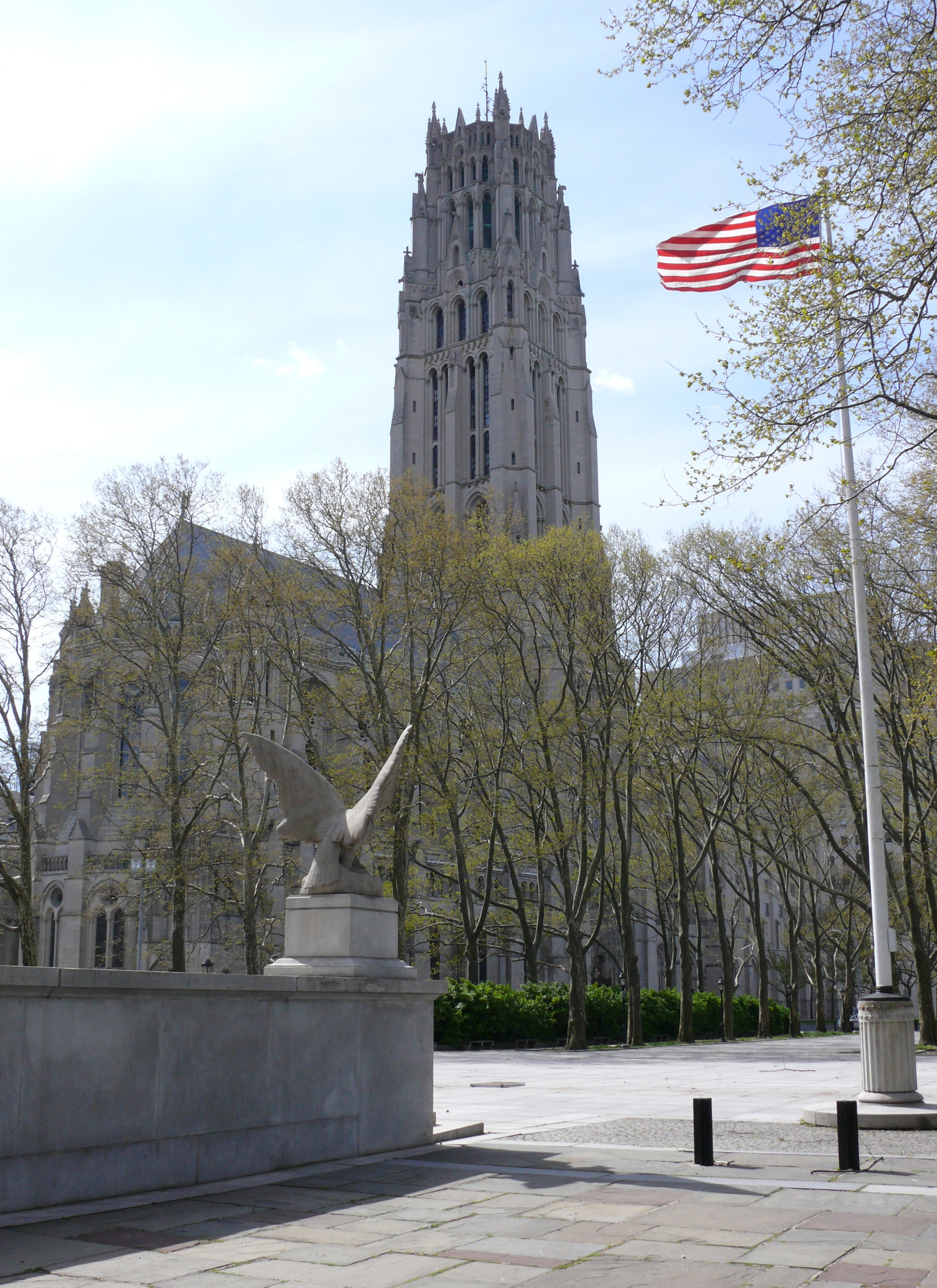 Riverside Church, as seen from Grant's tomb, in the City of New York is an interdenominational American Baptist and United Church of Christ church in New York City, famous for its elaborate Neo-Gothic architecture and its history of social justice.